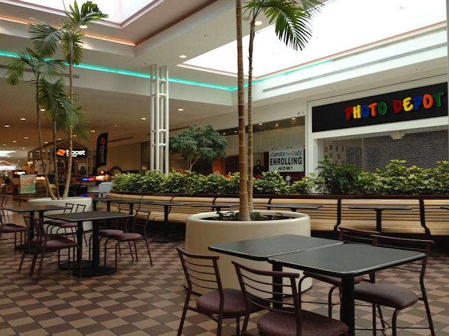 Food court inside the Mall of the Mainland in Texas City, Texas